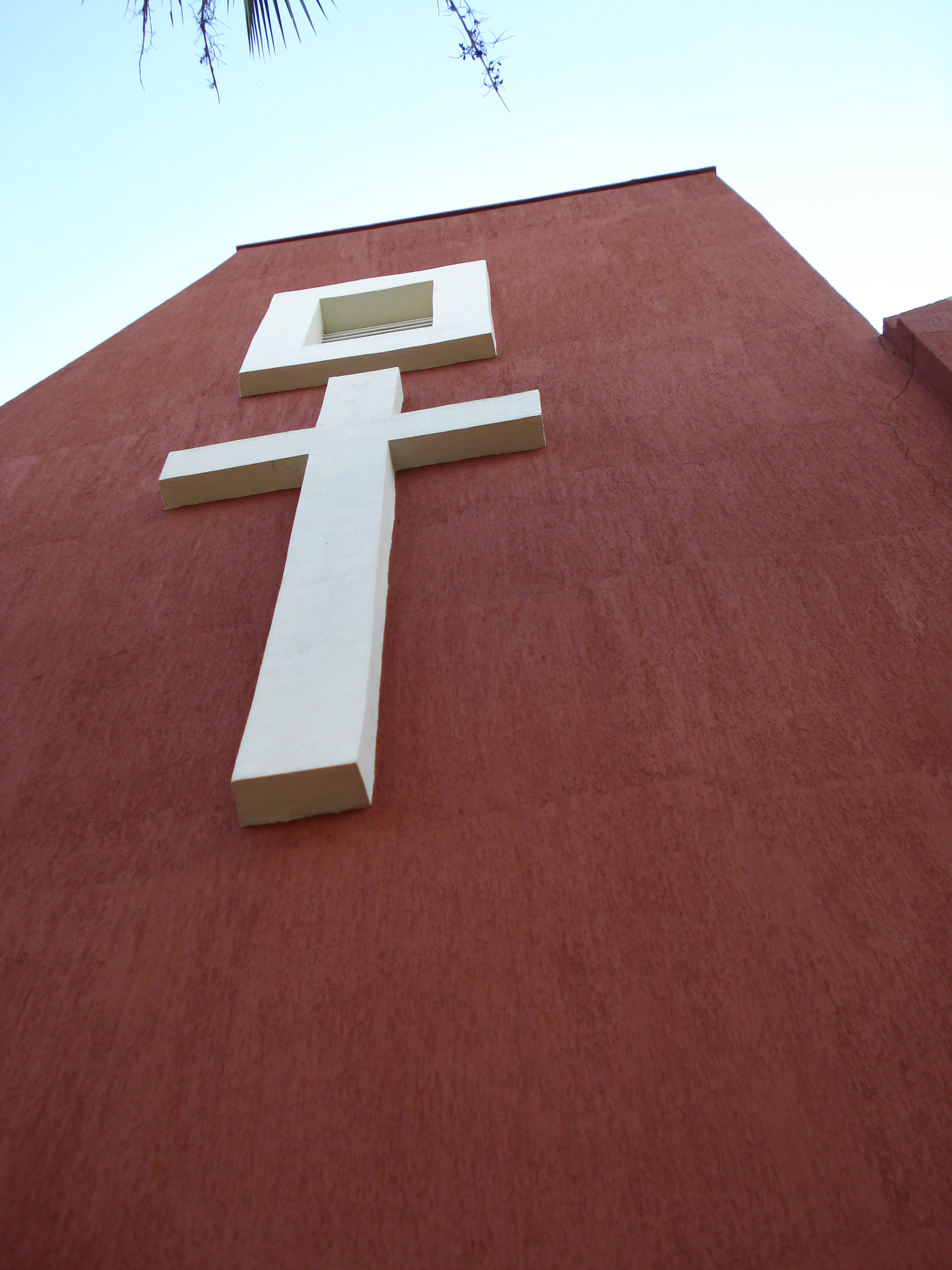 Igreja Nossa senhora de Lourdes